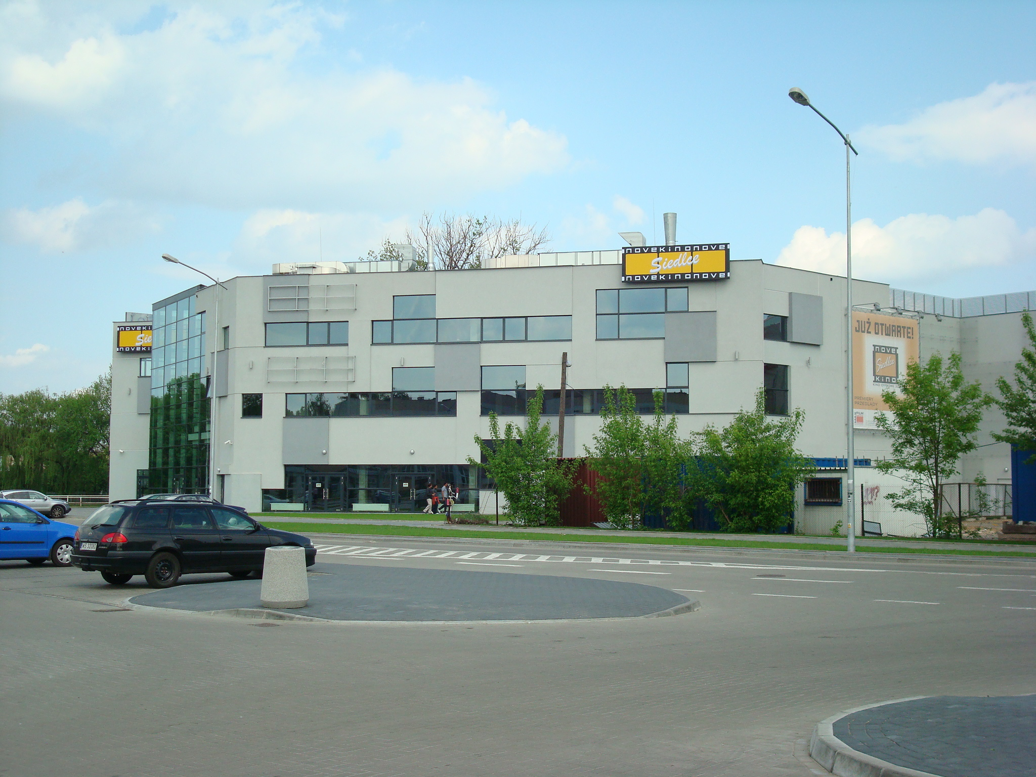 Nove Kino Siedlce